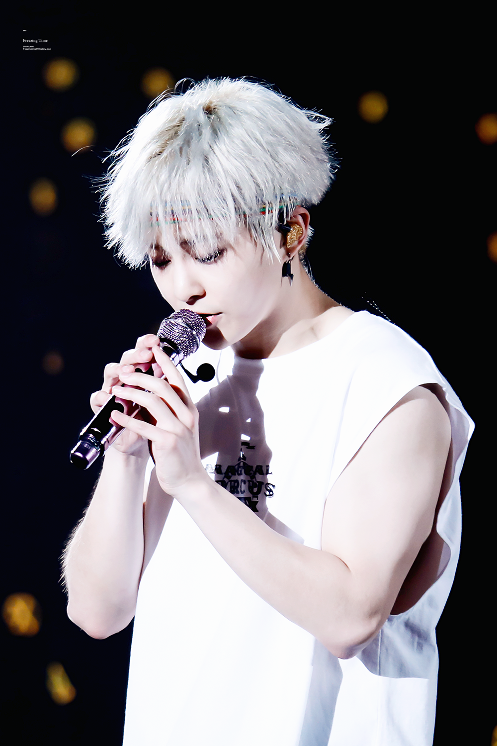 Xiumin at Exo-CBX's Japan Tour in Yokohama on May 12, 2018.